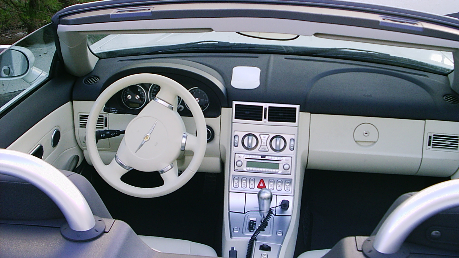 Chrysler Crossfire convertible interior - view with open top